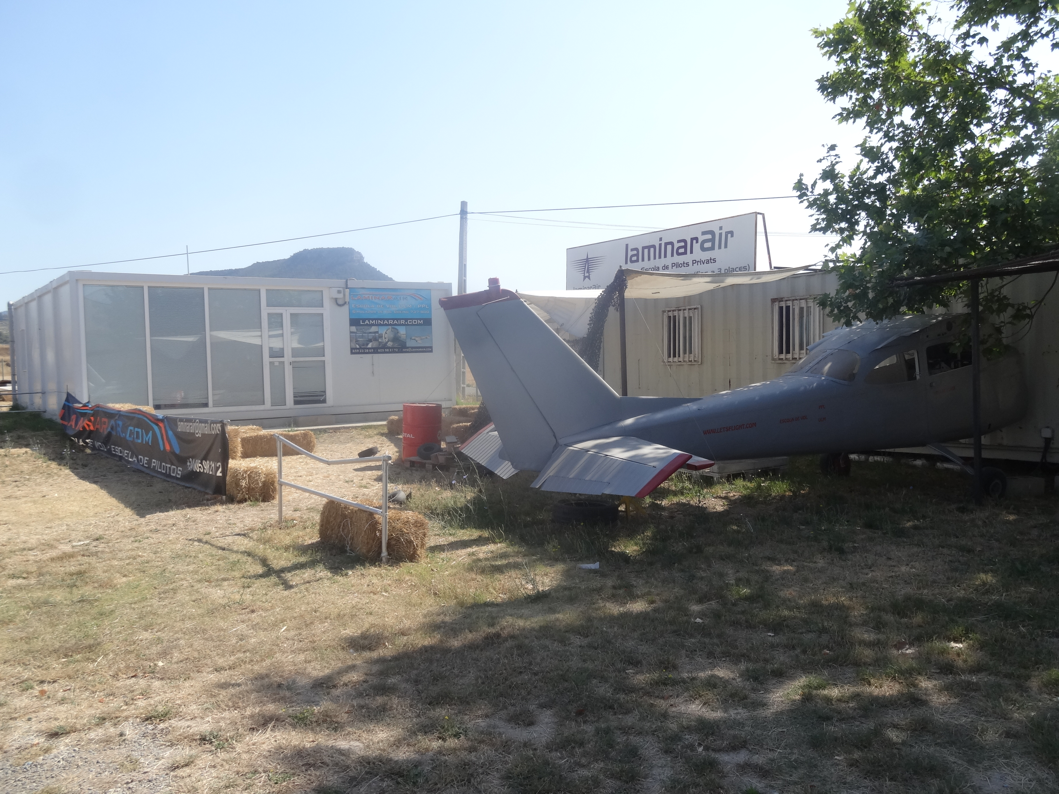 Igualada-Òdena aerodrome. 2016